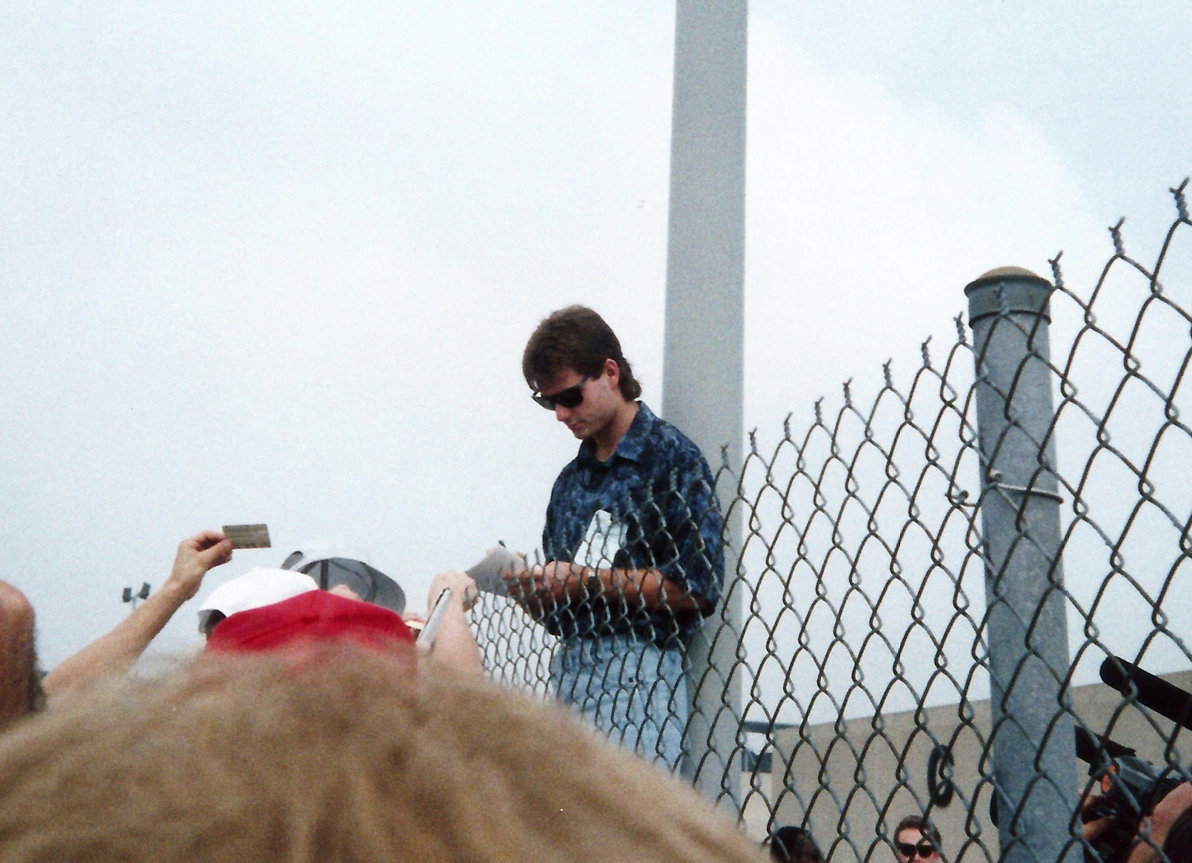 1993 NASCAR Brickyard 400 Open Test at the Indianapolis Motor Speedway. Jeff Gordon signing autographs for fans.